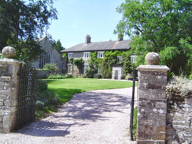 Berry Court - Berry Pomeroy